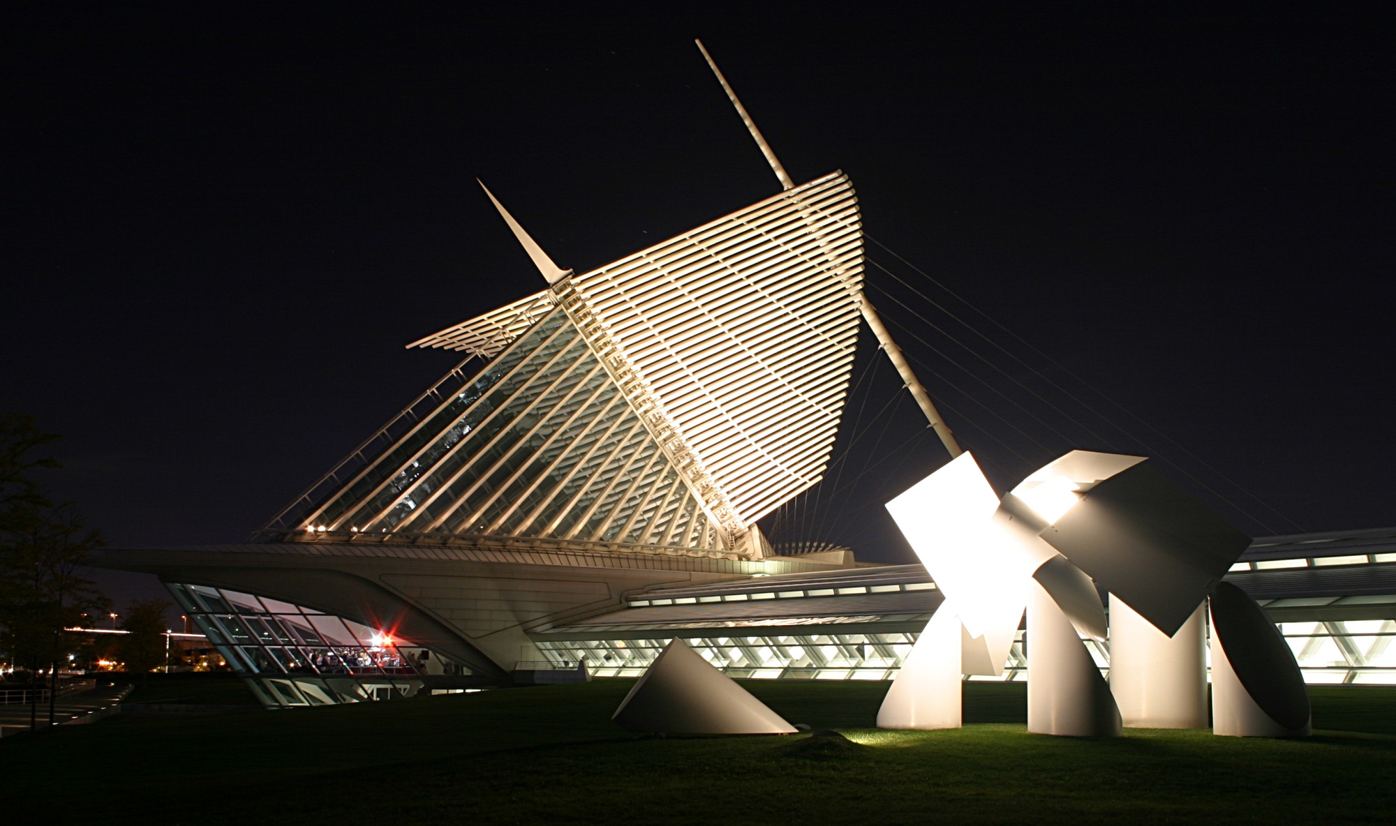 The Milwaukee Art Museum (MAM) at night